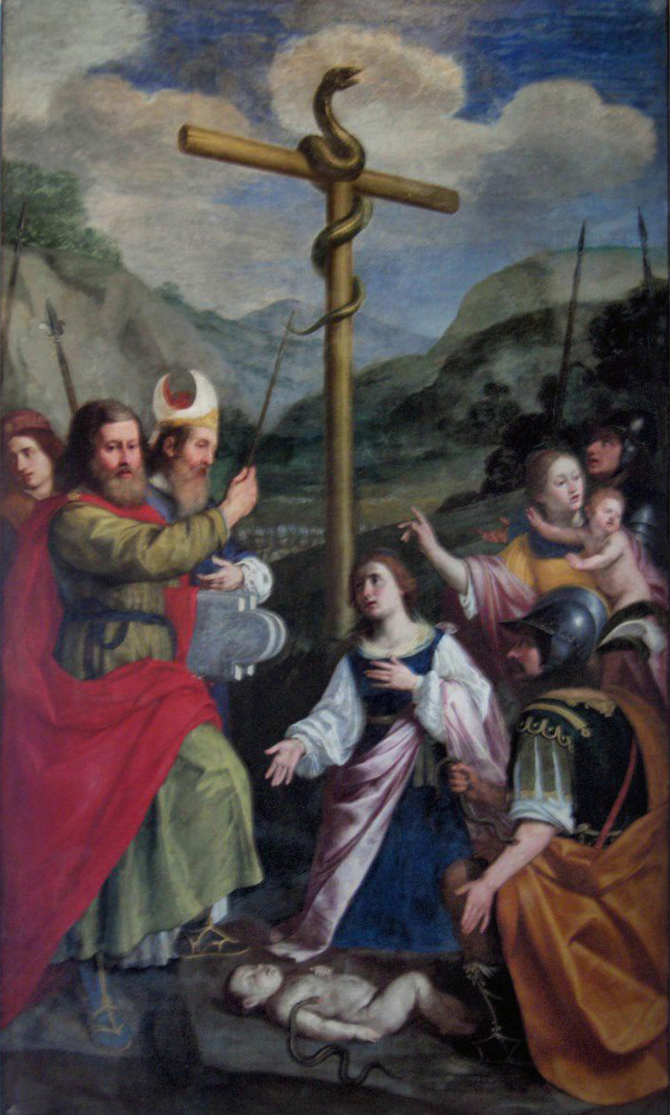 Mozes and the bronze Serpent